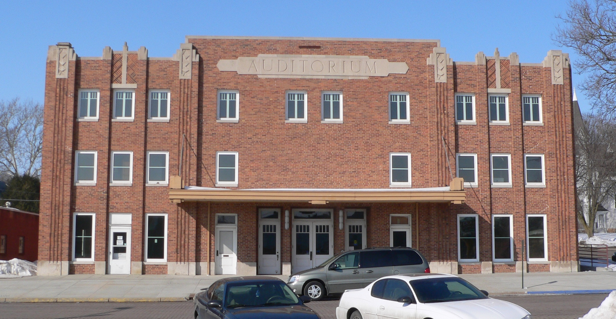 Wayne Municipal Auditorium in Wayne, Nebraska; seen from the east. The Art Deco building was constructed in 1935. It is listed in the National Register of Historic Places.